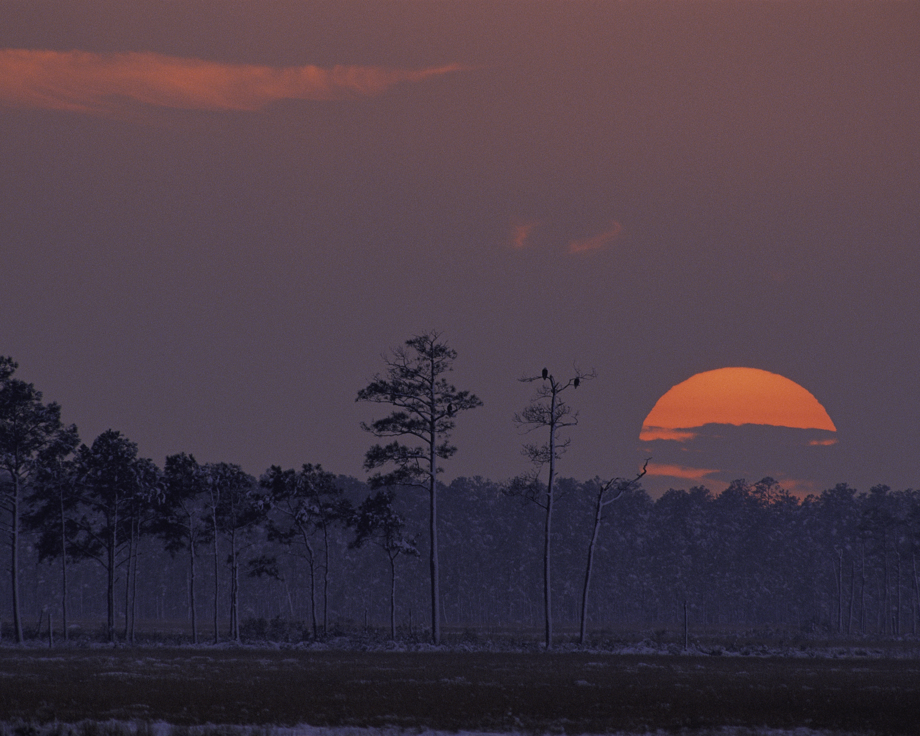 Credit: USFWS